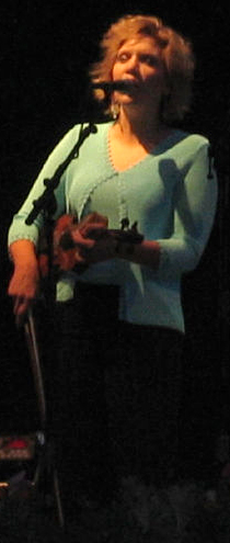 Cropped version of original shot of Alison Krauss with slight leveling and contrast work done.